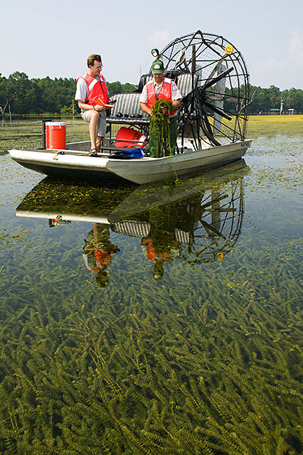 Mike Netherland (left) and Donald Morgan of the Army Corps of Engineers collect herbicide-resistant hydrilla from Lake Seminole in northern Florida.